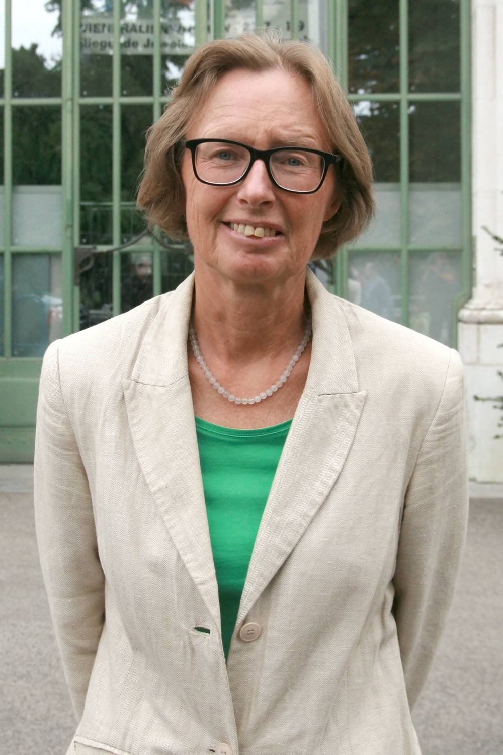 Gabriela Moser at the kick-off event of the The Greens – The Green Alternative for the campaign for the Austrian legislative election 2013 at Palmenhauses/Burggarten in Vienna, Austria.